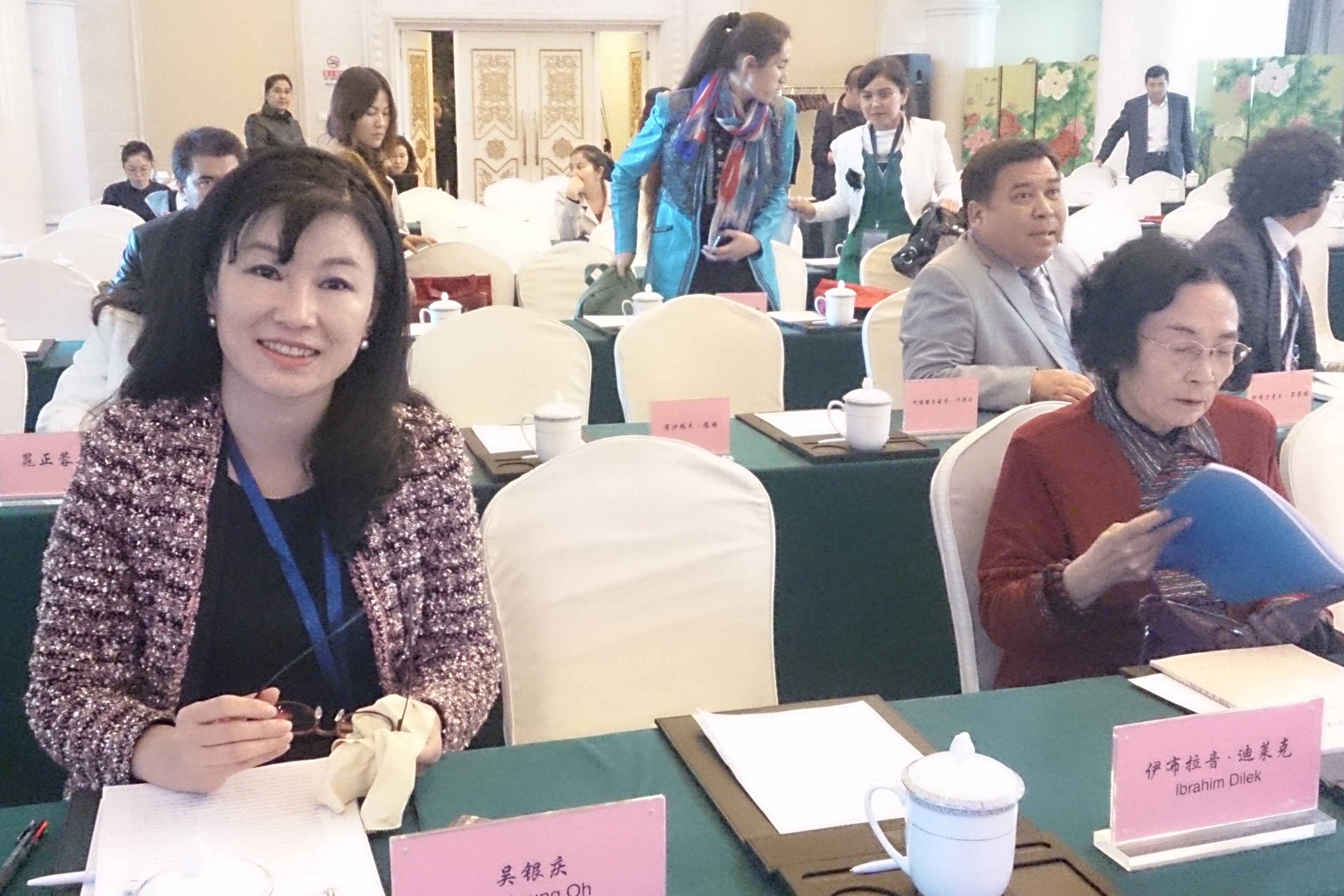 Prof. Eunkyung Oh, Professor at Dongduk Women's University, Seoul, Korea, and Consultant for Asia-Pacific Intangible Cultural Heritage Center of UNESCO, and a Chinese Professor Lang Ying (right), during a scientific conference in Beijing, China. 19 October 2015. Photo by T.Chorotegin.